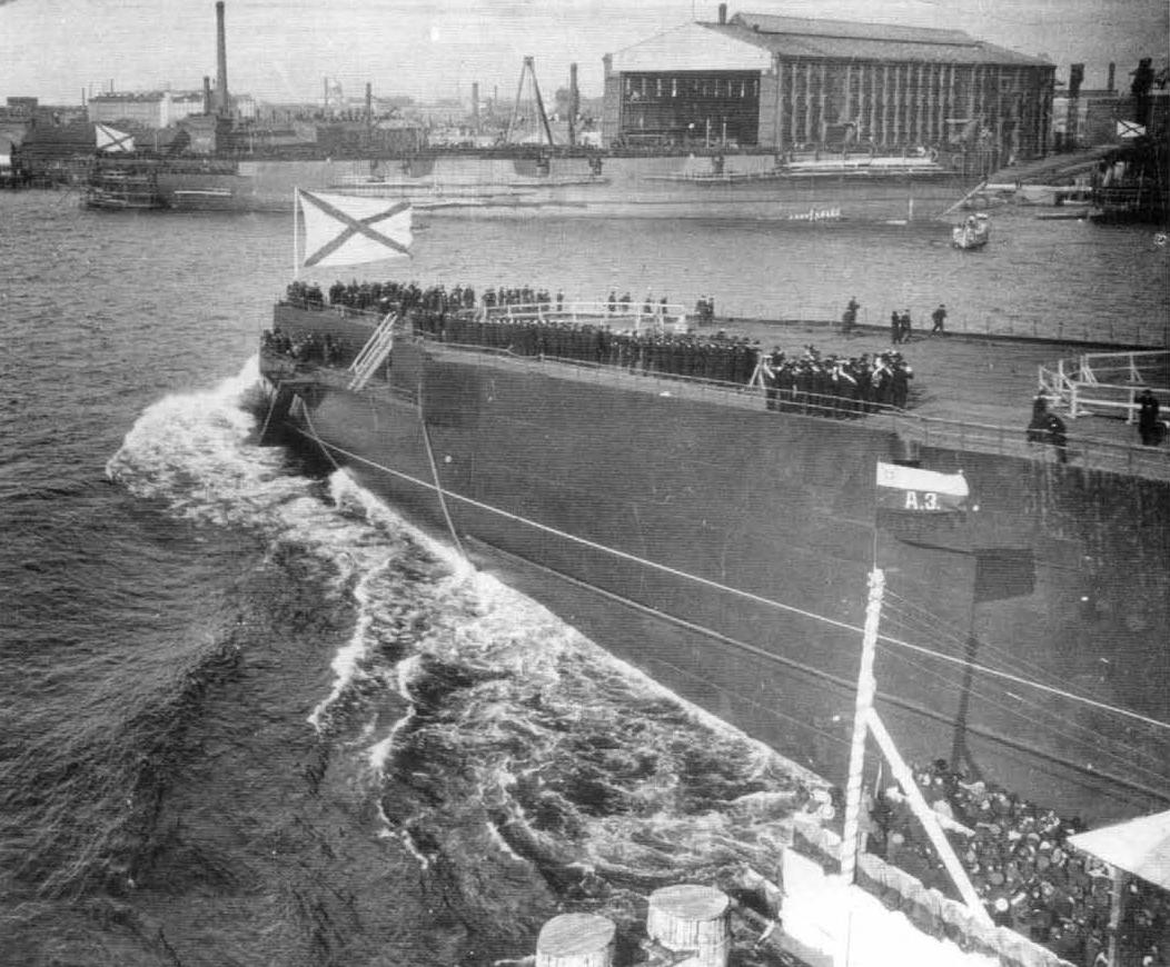 Launching of a Imperial Russian Navy battleship Gangut. Another ship of the class (Poltava) in the background.